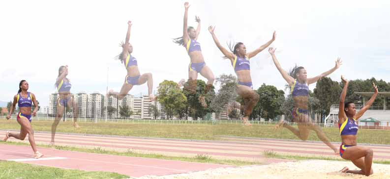 long jump